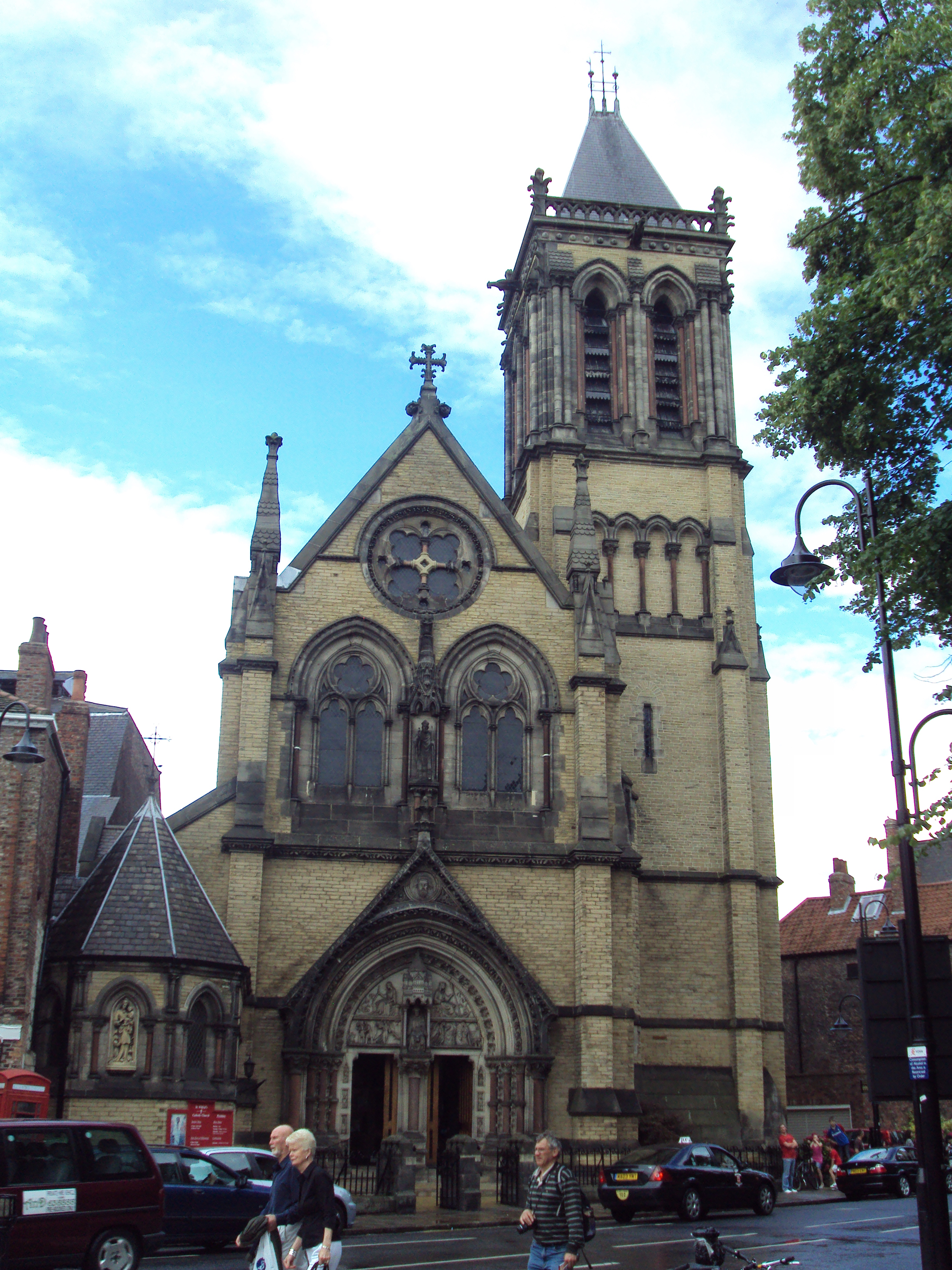 St Wilfrid's RC Church, Duncombe Place, York.